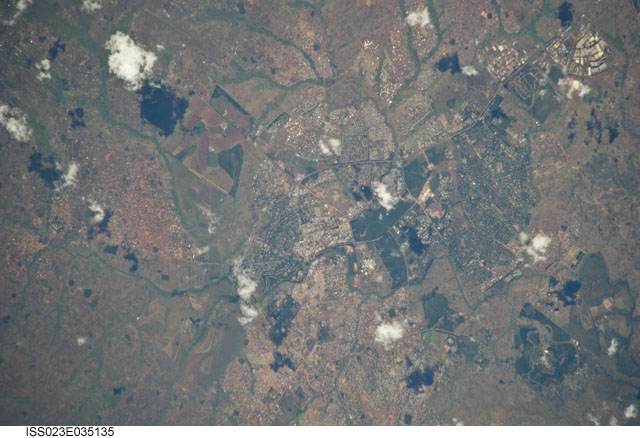 Astronaut Photo of Lilongwe, Malawi taken from the International Space Station (ISS) during Expedition 23 on May 7, 2010.